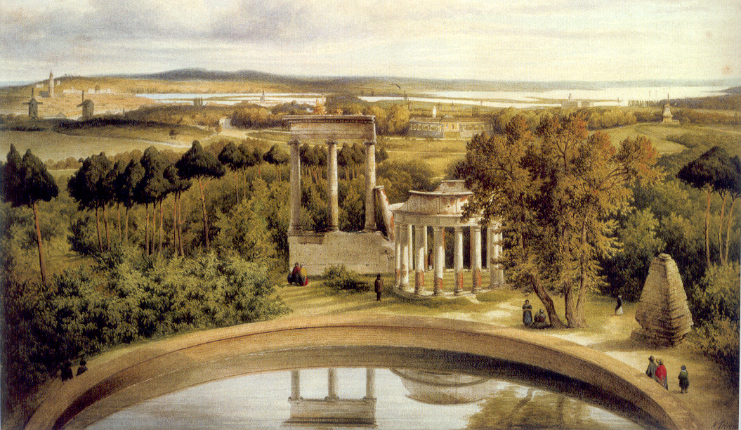 View from Mount of Ruins to Potsdam